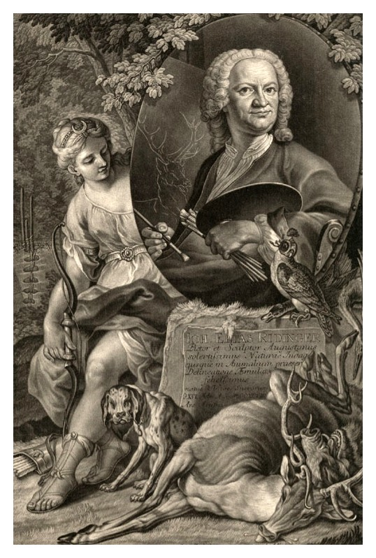 Self-portrait of Johann Elias Ridinger